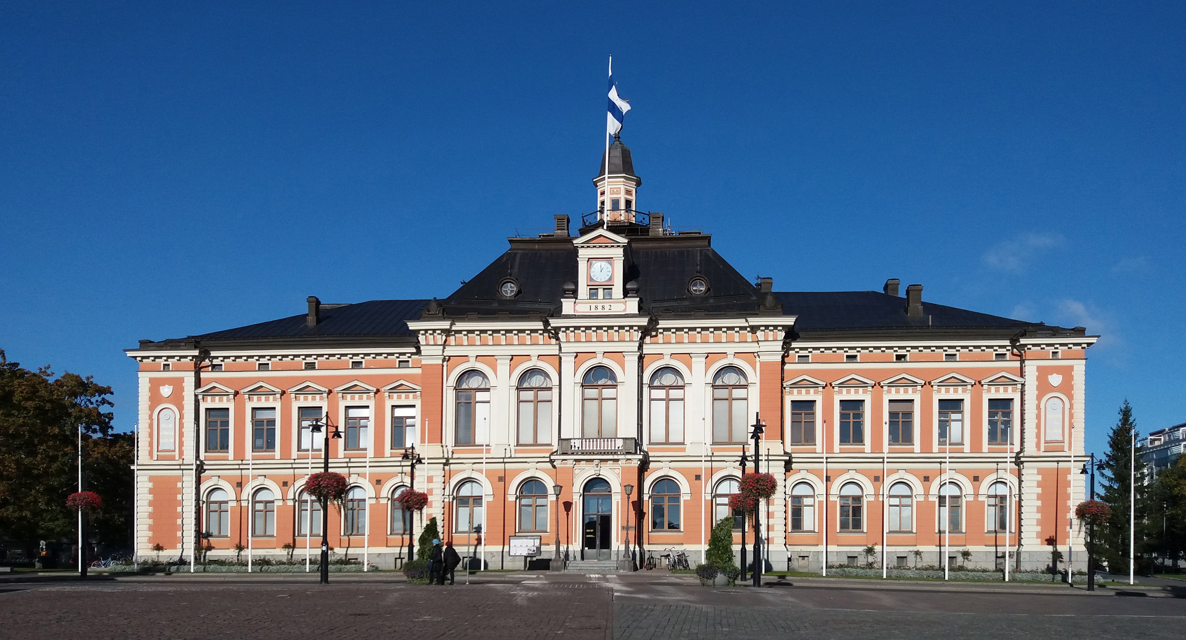 Kuopio Town Hall